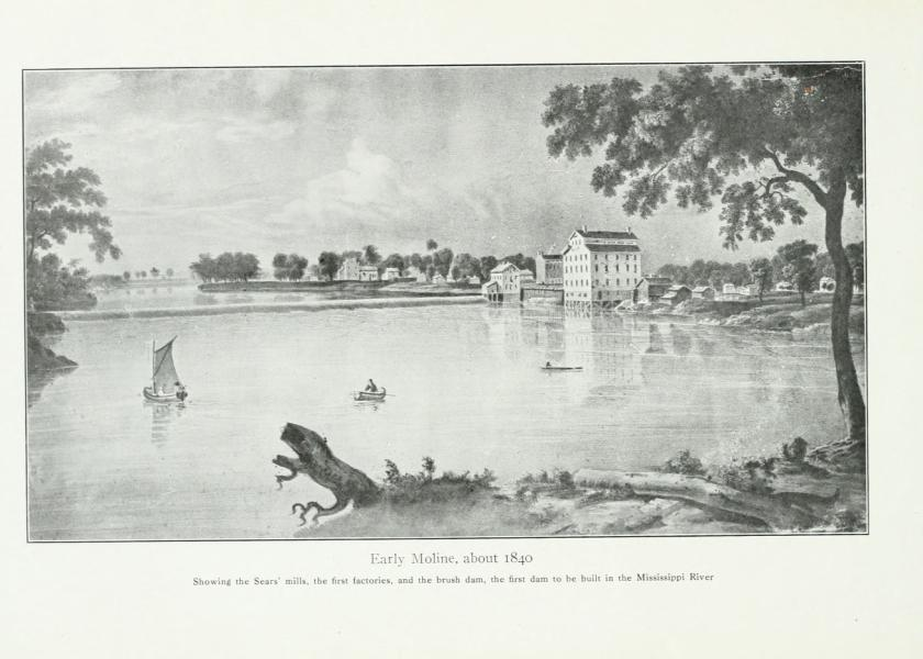 Moline, about 1840